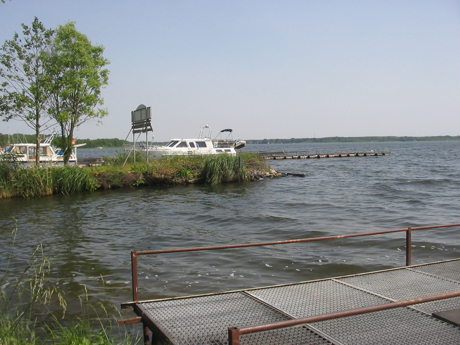 The Wolziger See is a lake in Heidesee, District Dahme-Spreewald, Brandenburg, Germany. The lake covers 597 hectare and has a depth of max. 13 meters. It is situated in the Dahme-Heideseen Nature Park. Shown here: pier at the western shore in Blossin.